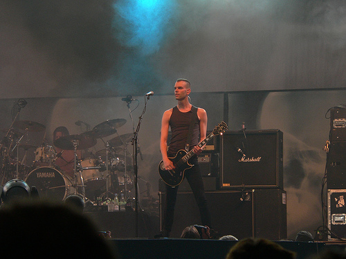 bass guitarist of .